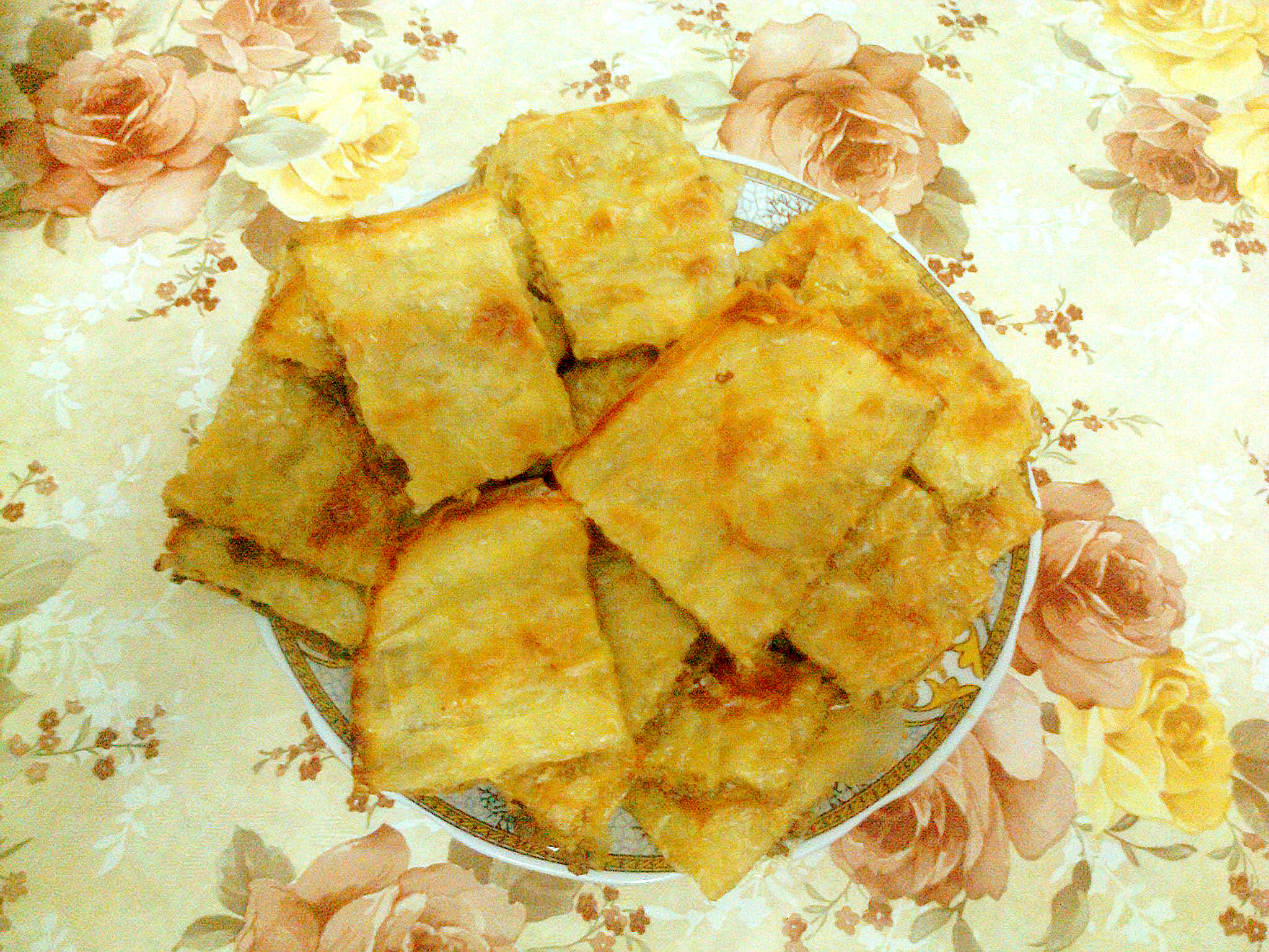 Gelash with minced meat This is an image of food from Egypt